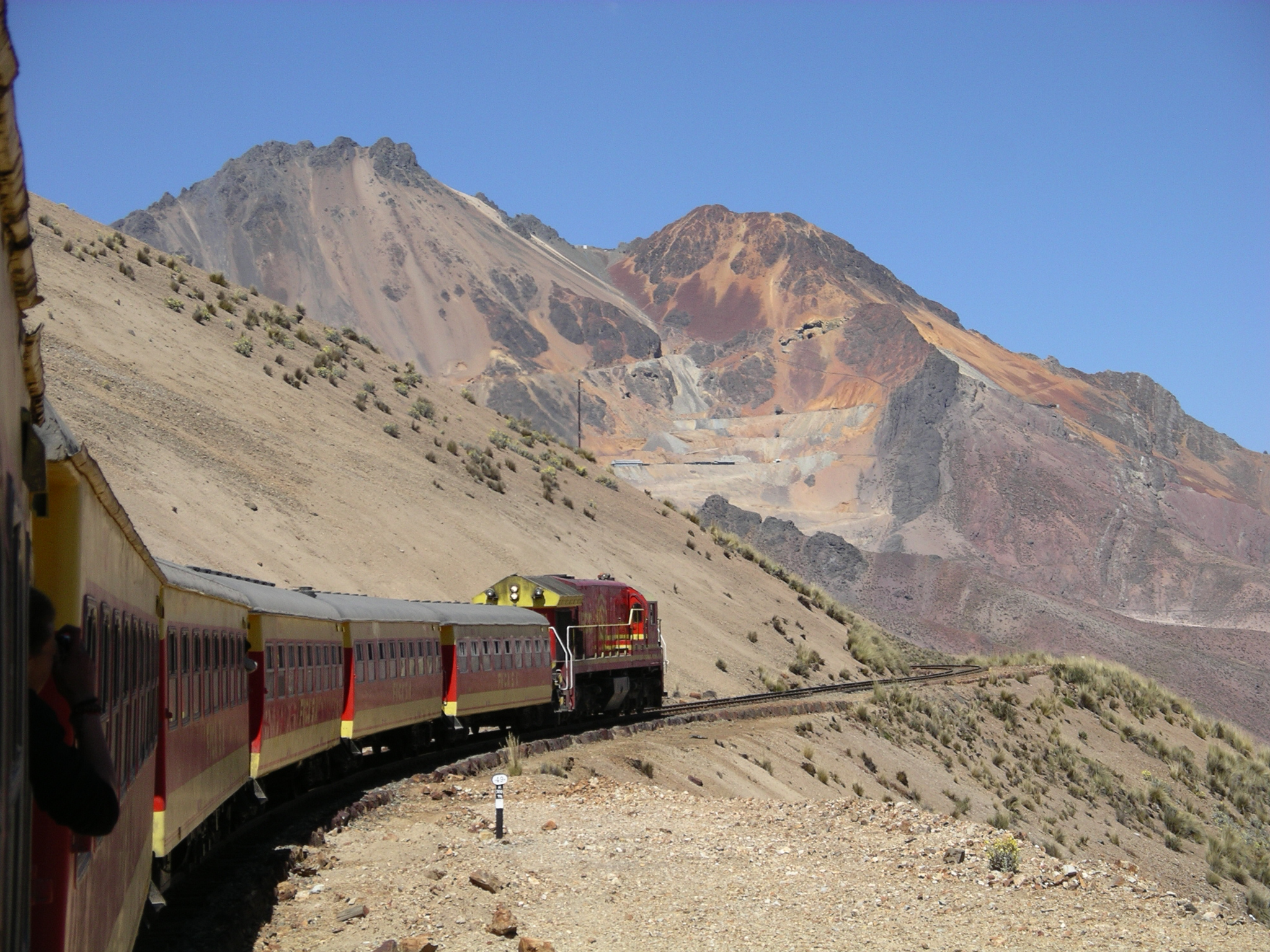 Train Track of the line "Lima - Morococha - Abra Anticona (Ticlio) - La Oroya - Huancayo" in Peru. This picture was taken about at 4800m above sea level going up from Lima, just before reaching the highest point at Abra Anticona.